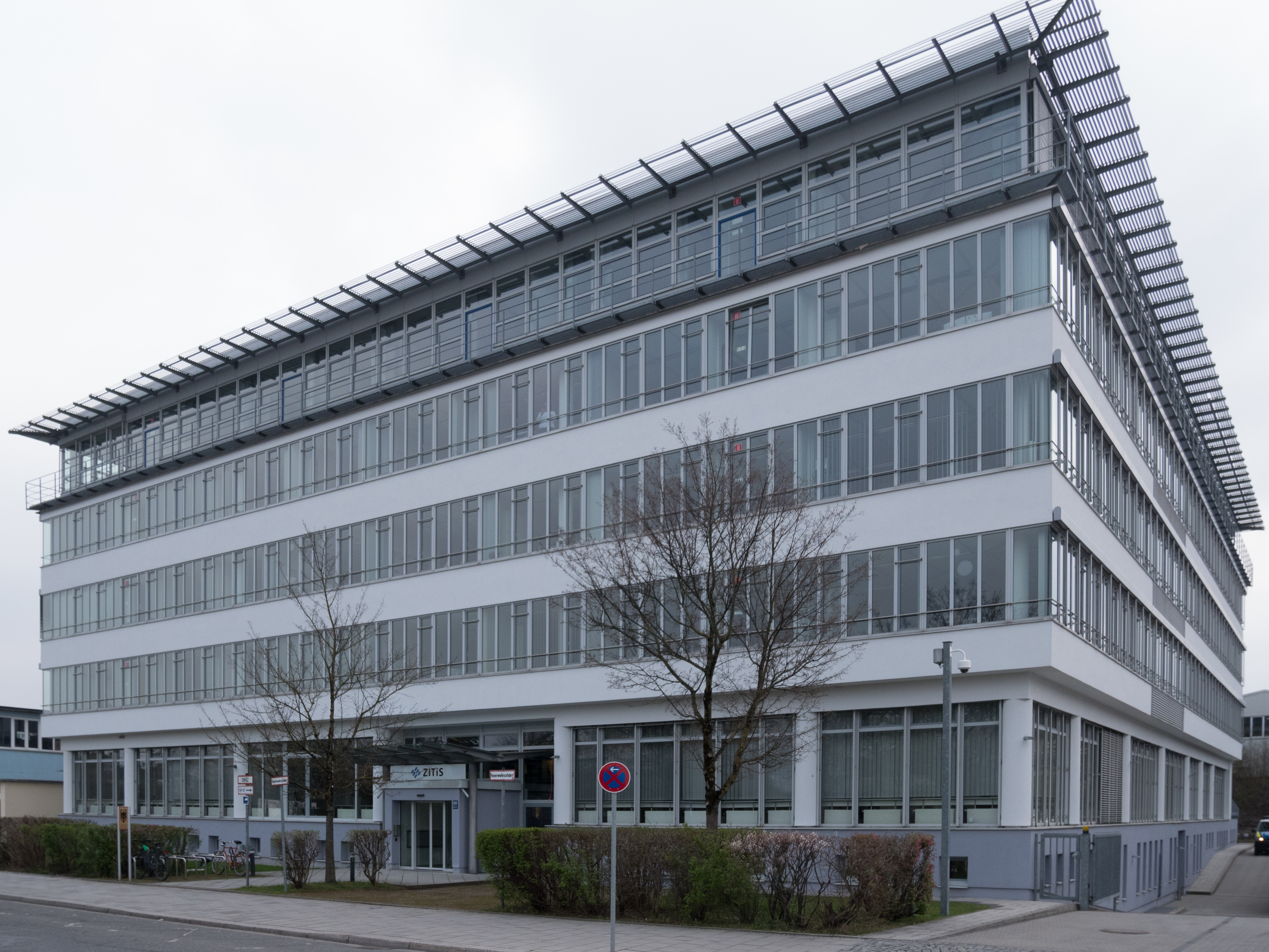 ZITiS, 11.04.2019, Frontalansicht Gebäude